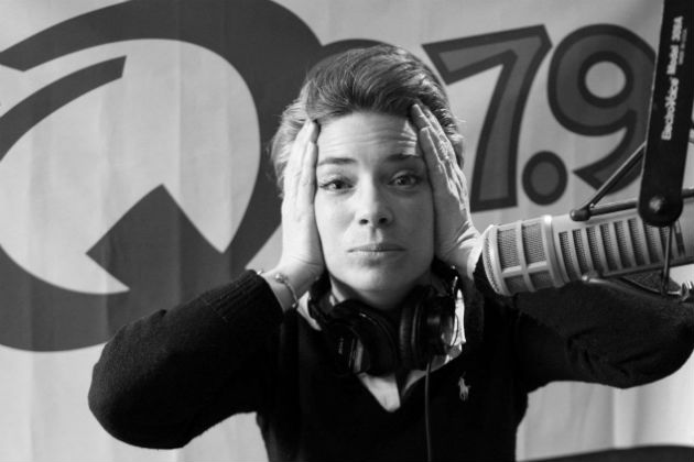 You will find this picture of Lori in the lobby of WJBQ radio at One City Center in Portland, Maine